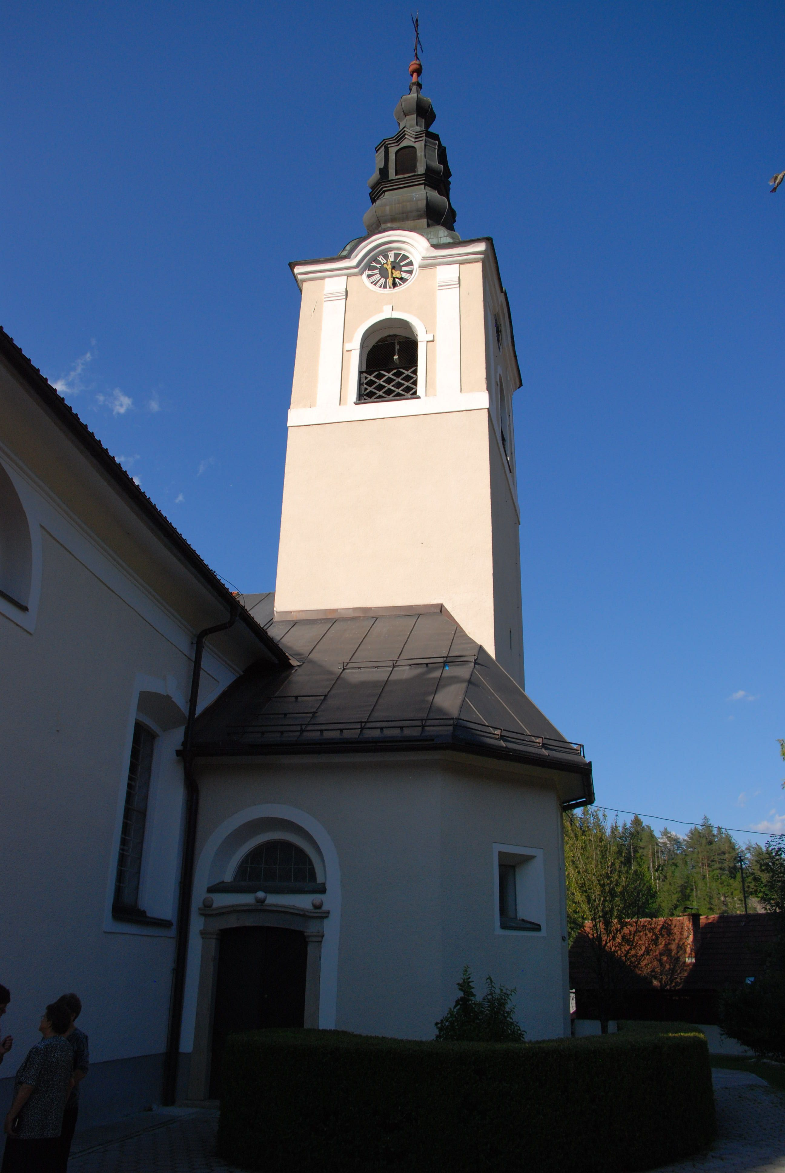 St. Lawrence's Parish Church in Luče, northern Slovenia.